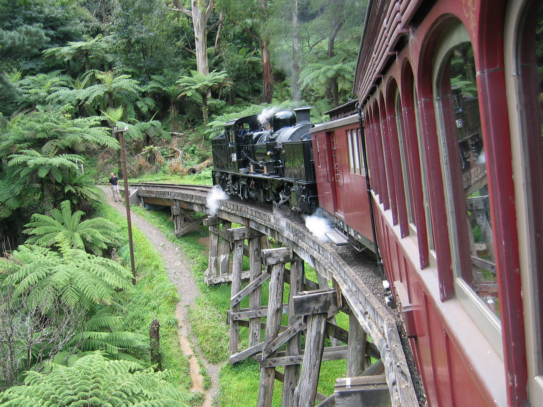 Puffing Billy Railway Garratt Locomotive G42 on Trestle bridge